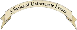 A Series of Unfortunate Events logo.